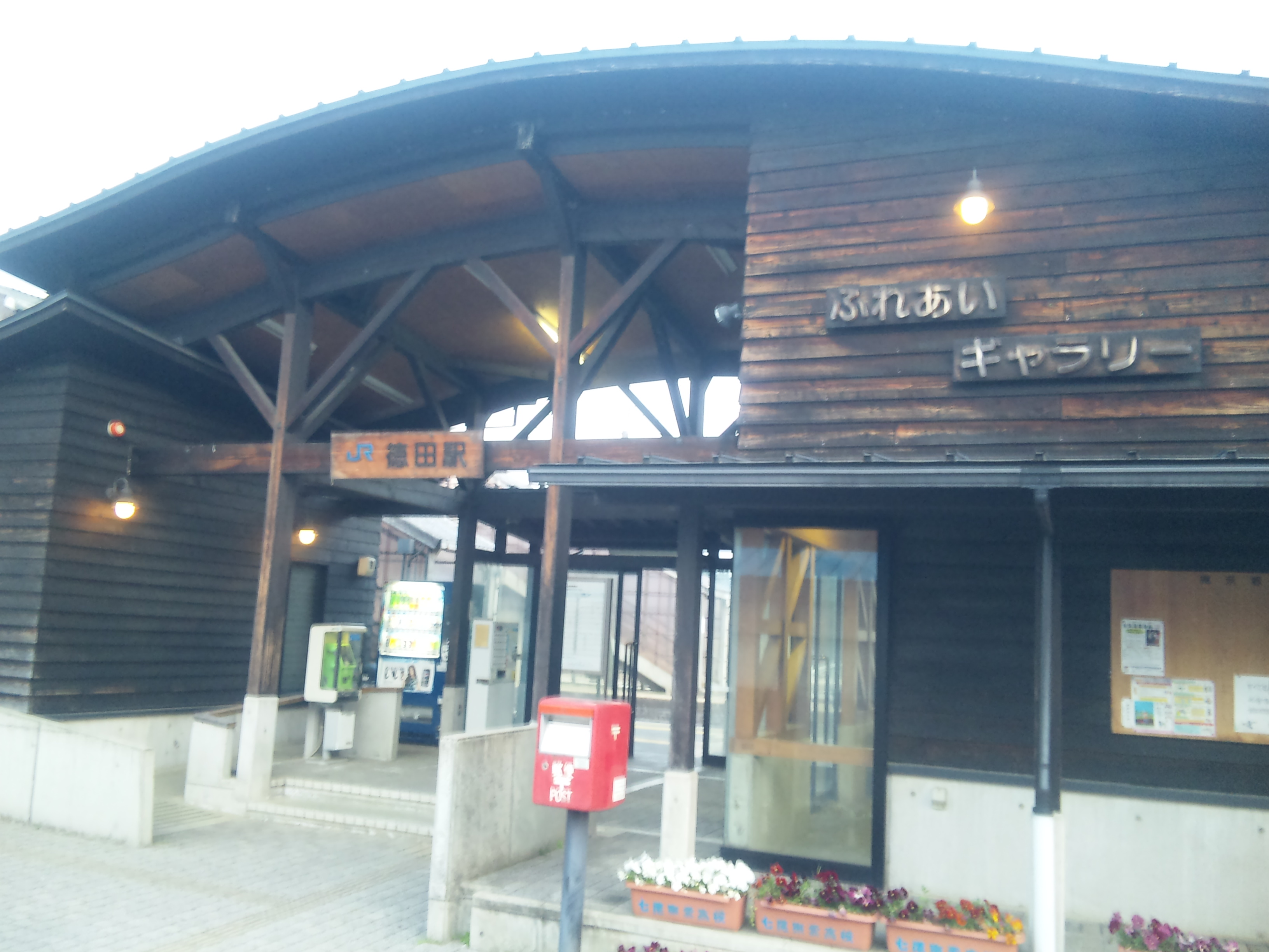 See below.